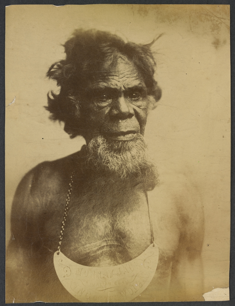 Aboriginal Man wearing breastplate inscribed "Murray Jack"